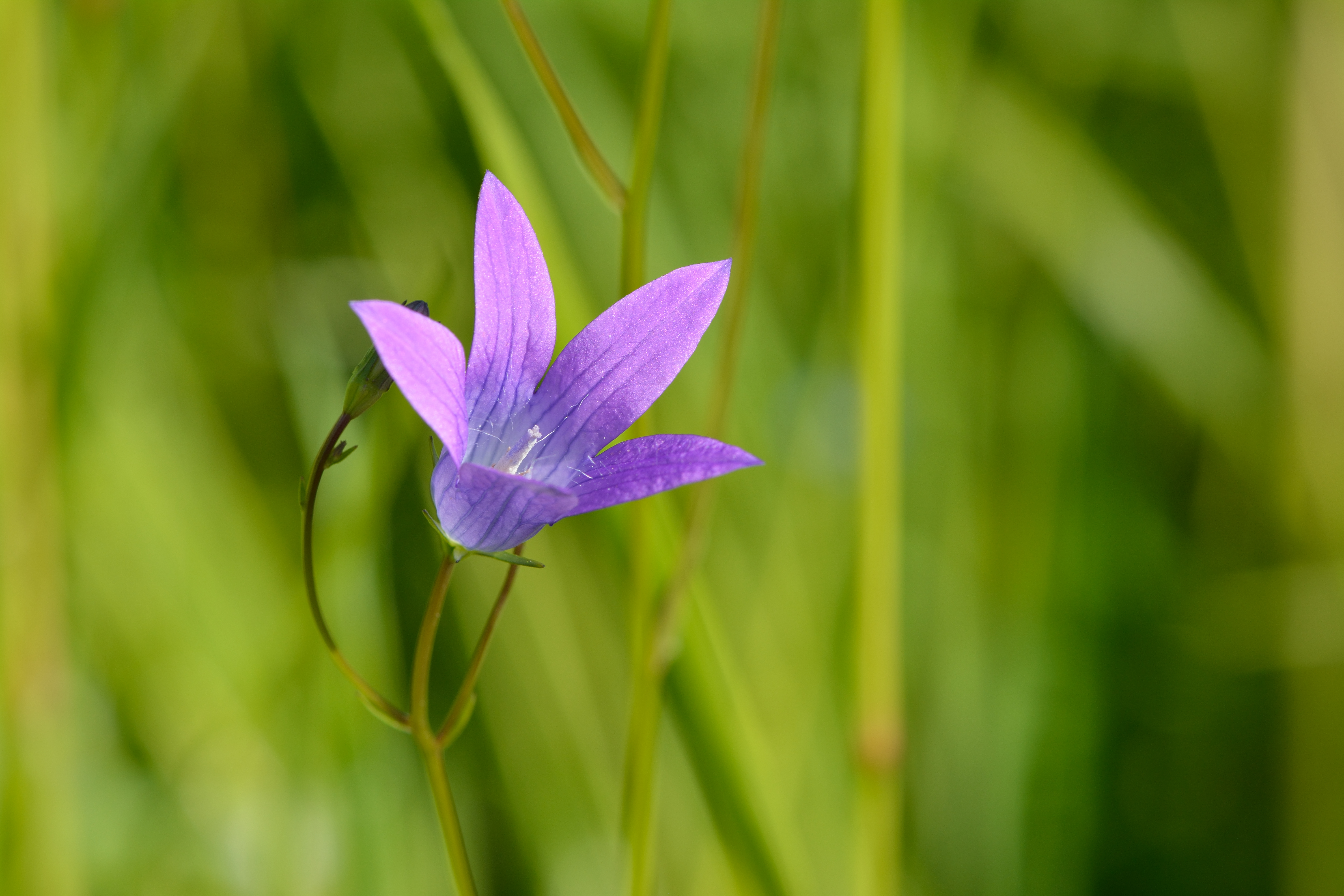 Campanula patula - Niitvälja, Northwestern Estonia